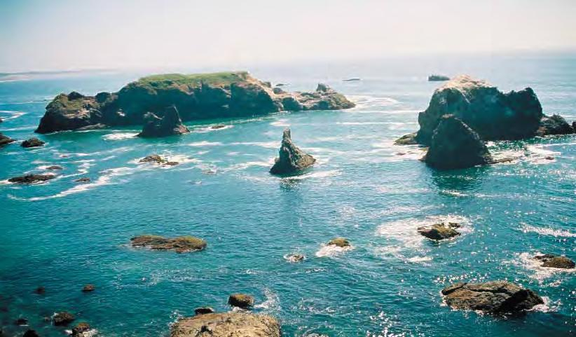 islands and rocks of California Coastal National Monument